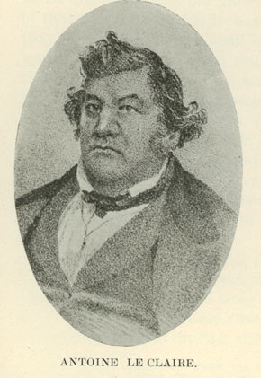 The interpreter for Black Hawk's autobiography and a principal founder of Davenport, Iowa. From oil painting in Court House, at Davenport, Iowa